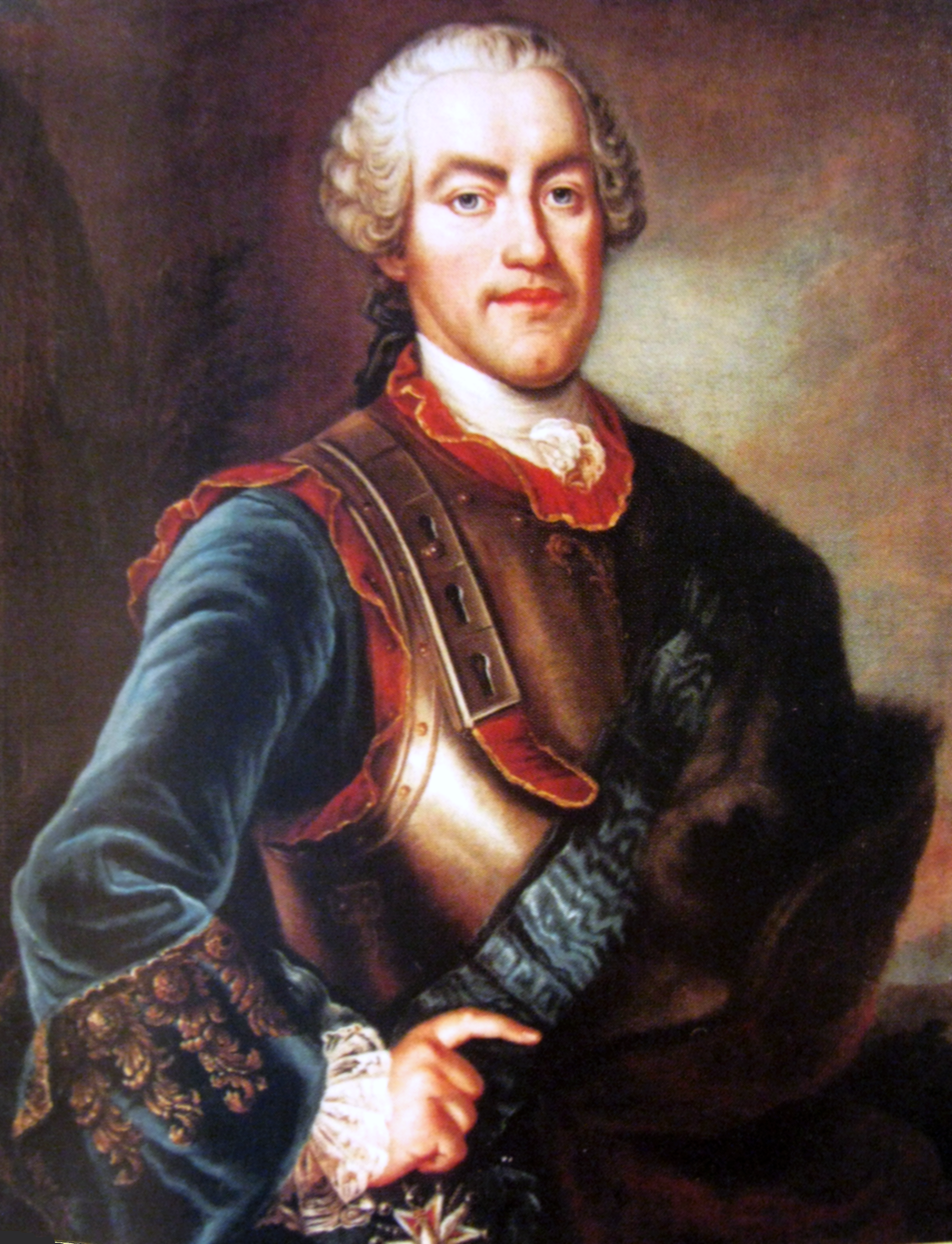 Portrait of Tomasz Antoni Zamoyski (1707–1752)